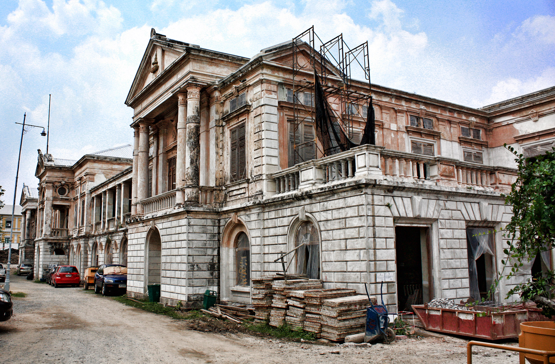 Saranrom Palace, Bangkok, Thailand (during renovation 2009)